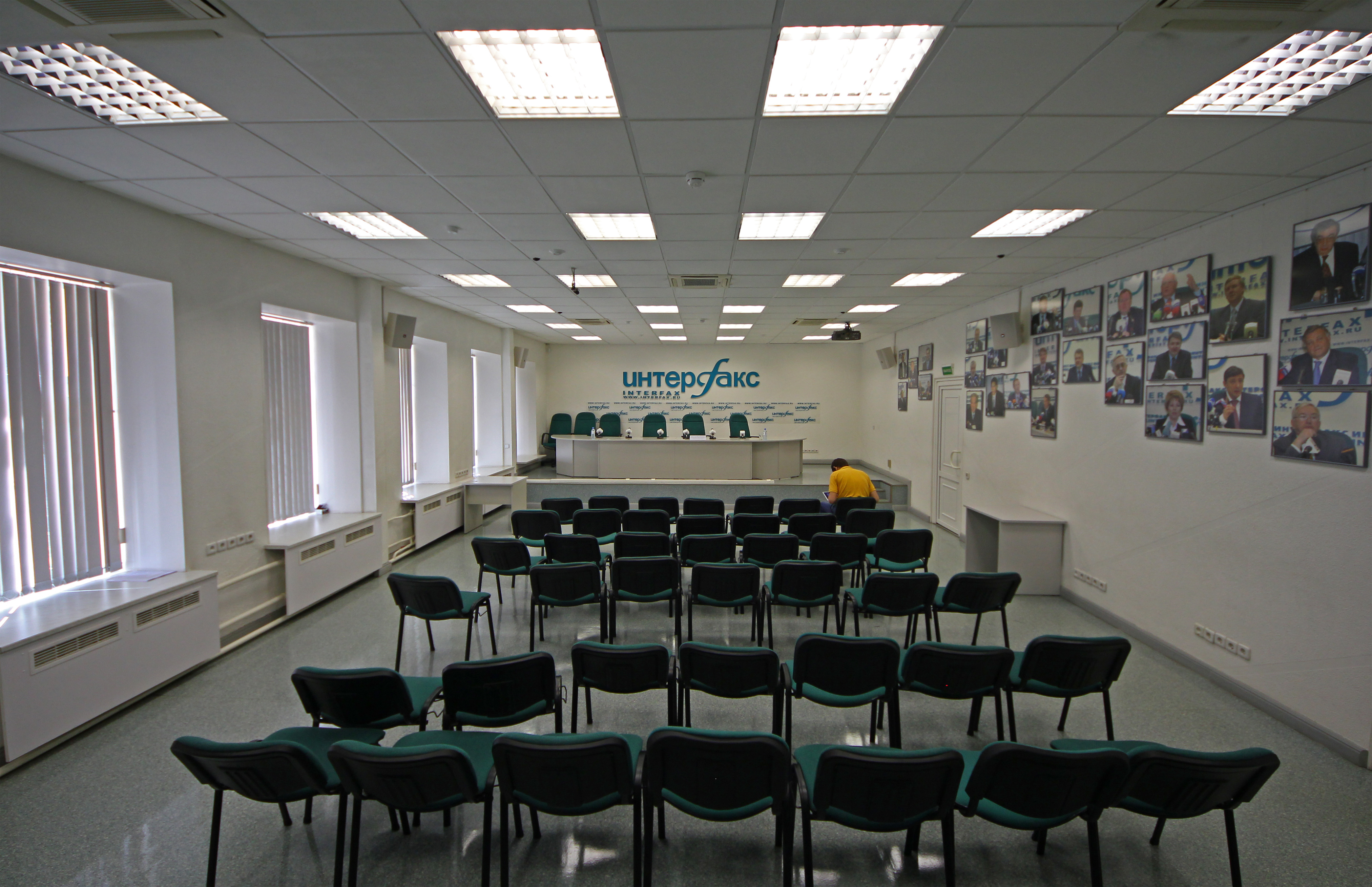 The conference room at the press ofice of Interfax in Moscow